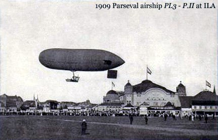 PL3/PII flying over ILA 1909 at Frankfurt am Main. From the Jean-Pierre Lauwers collection